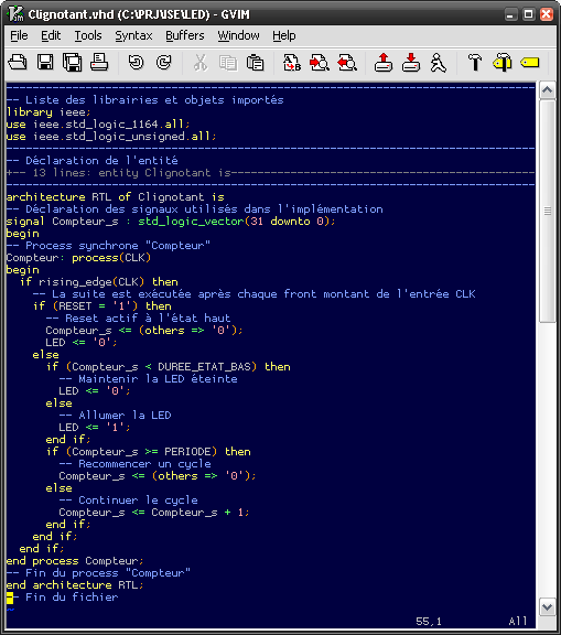 Screenshoot of GVim editing a VHDL file in french